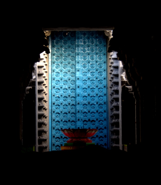 tiruchendure kovil gopuram